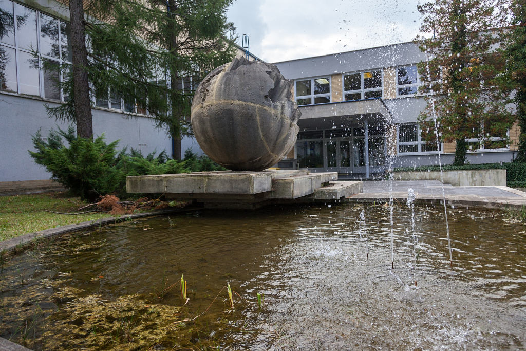 Úpravna vody Nová Ves u Frýdlantu nad Ostravicí, autor: Boris Renner